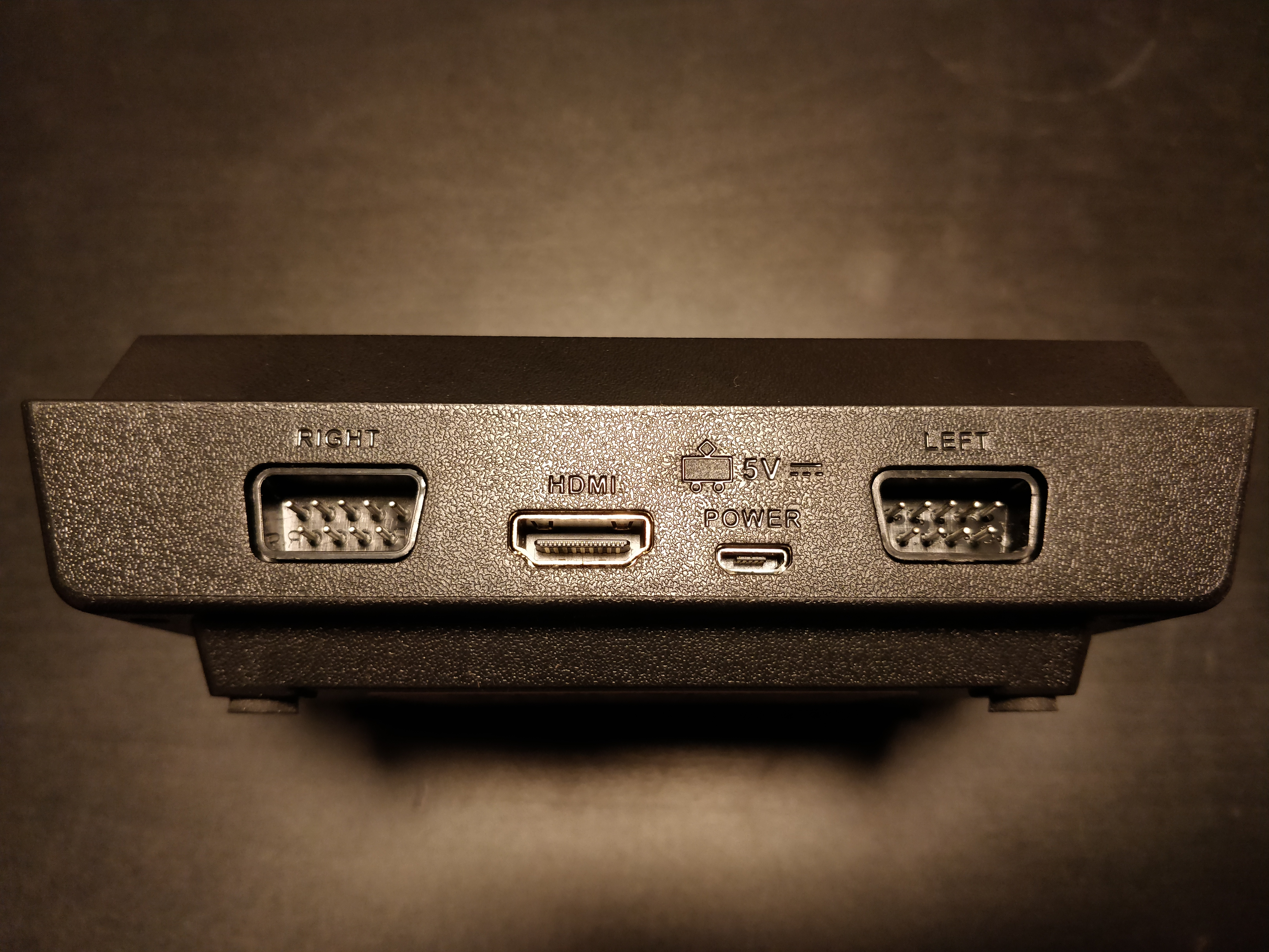 Atari Flashback X Deluxe video game console